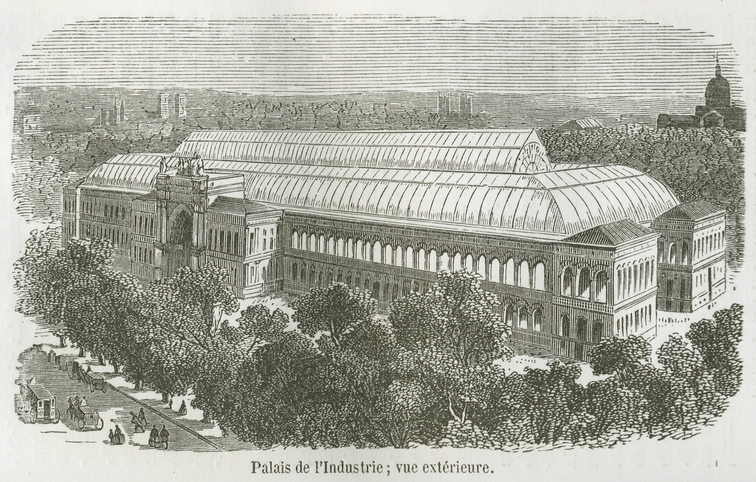 A view of the exterior of the Palais de l'Industrie.